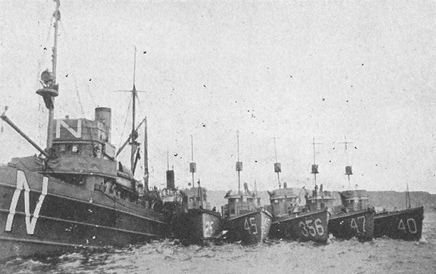 The US Navy minesweeper USS Eider (AM-17) (left), with submarine chasers alongside in a North Sea port (probably Kirkwall in the Orkney Islands) during the clearance of the North Sea Mine Barrage. The leftmost submarine chaser is USS SC-25, but SC-254, SC-256 and SC-259 participated in clearing the mine barrage. The other submarine chasers are (left to right) USS SC-45, USS SC-356, USS SC-47, and USS SC-40.